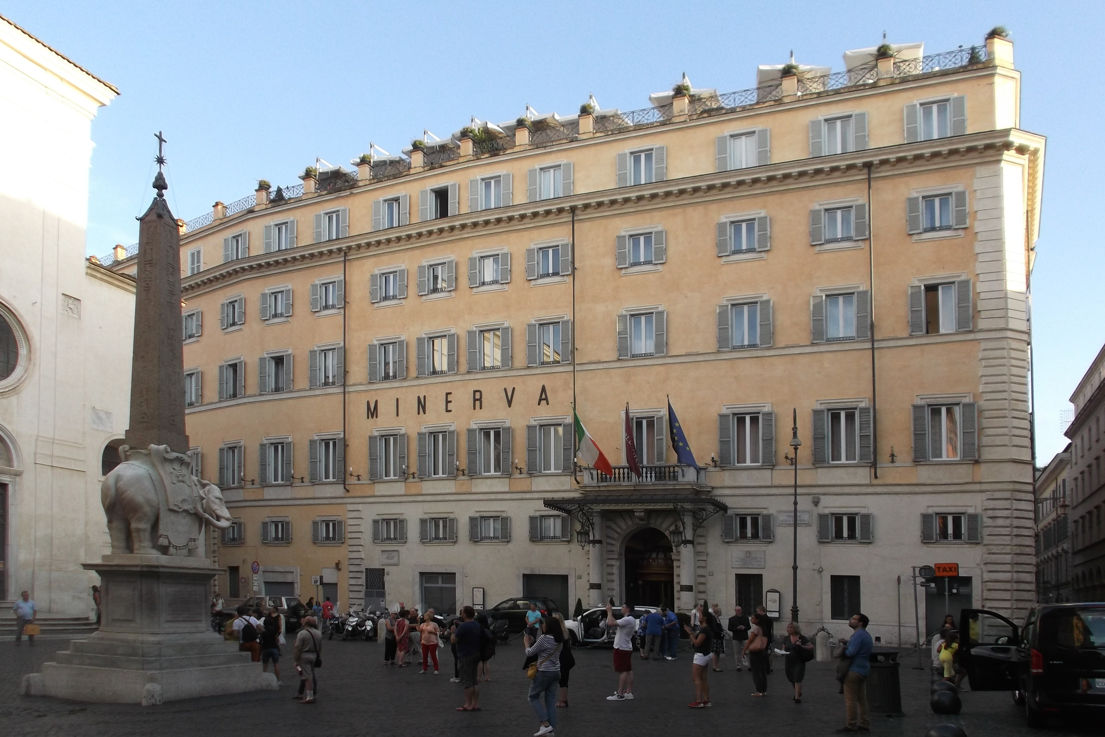 Grand Hôtel de la Minerve in Rome (formerly known as Minerva Hotel)